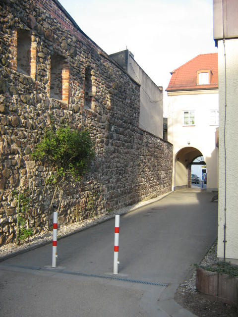 Old city wall in Strausberg